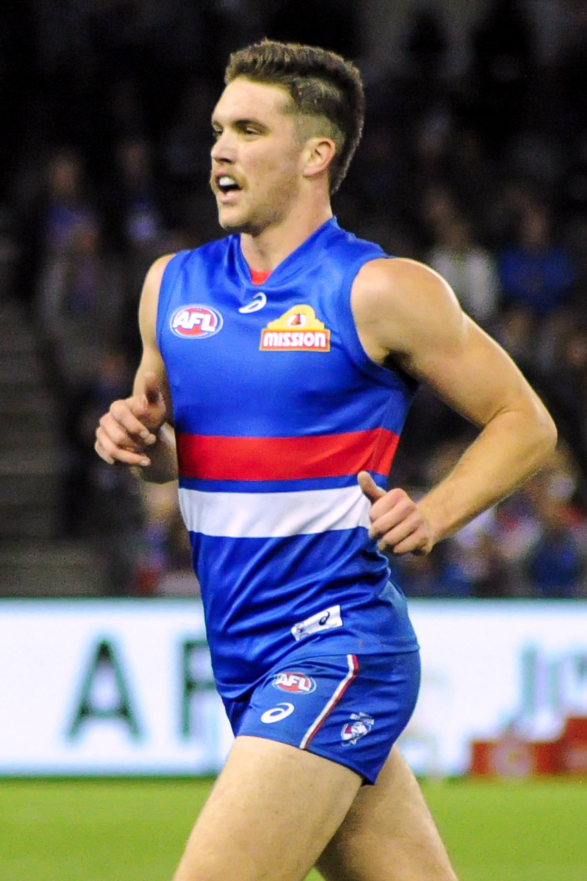 Bailey Williams during the AFL round six match between the Western Bulldogs and Carlton on Friday, 27 April 2018 at Etihad Stadium in Melbourne, Victoria.